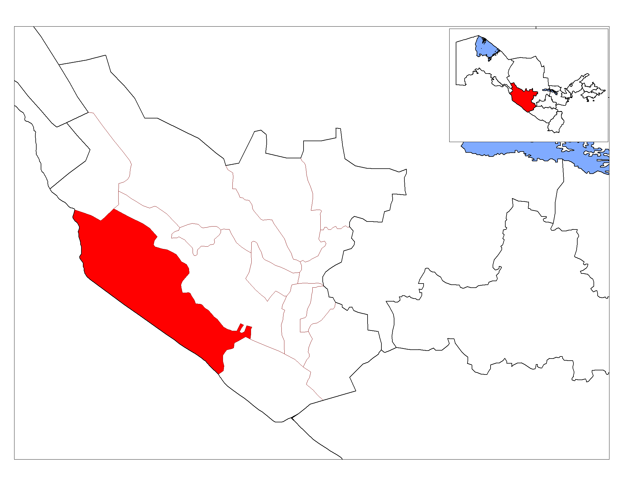 Location map of Qorako’l District in Buxoro Province, Uzbekistan